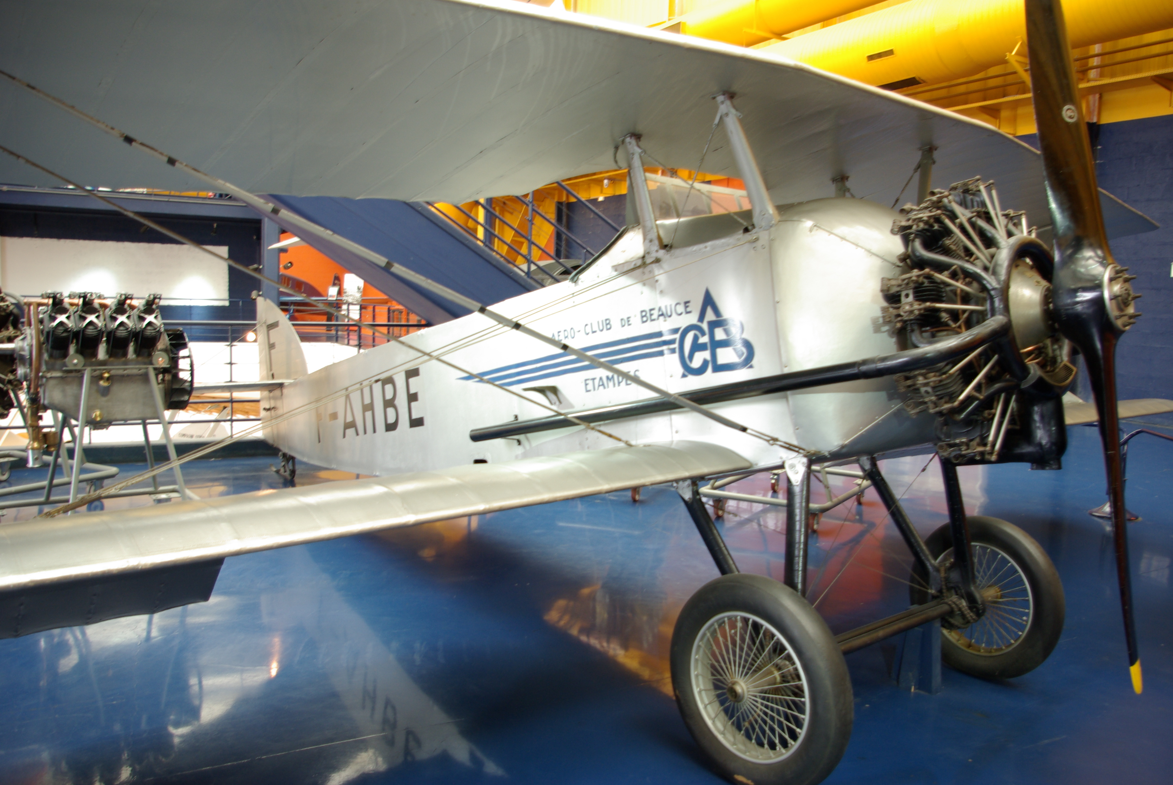 A Blériot-SPAD S.54 exhibited at the Air & Space Museum of Le Bourget, France.